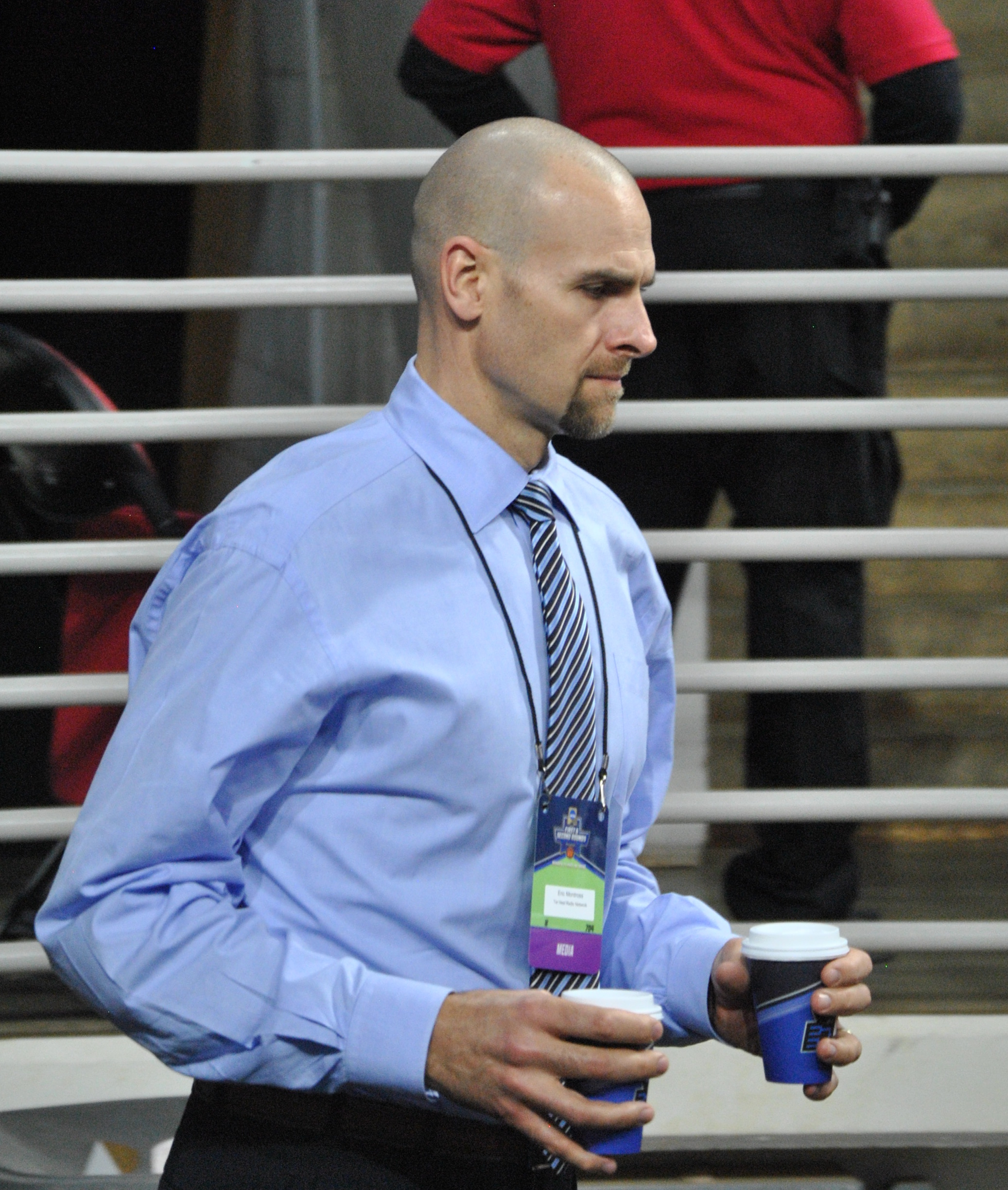 Fomer UNC Player and current Broadcaster Eric Montross at haftime of the UNC - Florida Gulf Coast Game